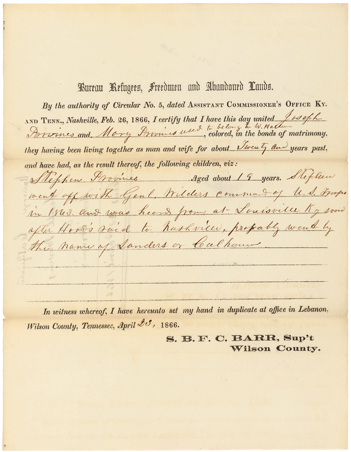 Certificate of Matrimony for Joseph and Mary Province of Nashville, Tennessee Certificate of Matrimony from the Freedmen's Bureau